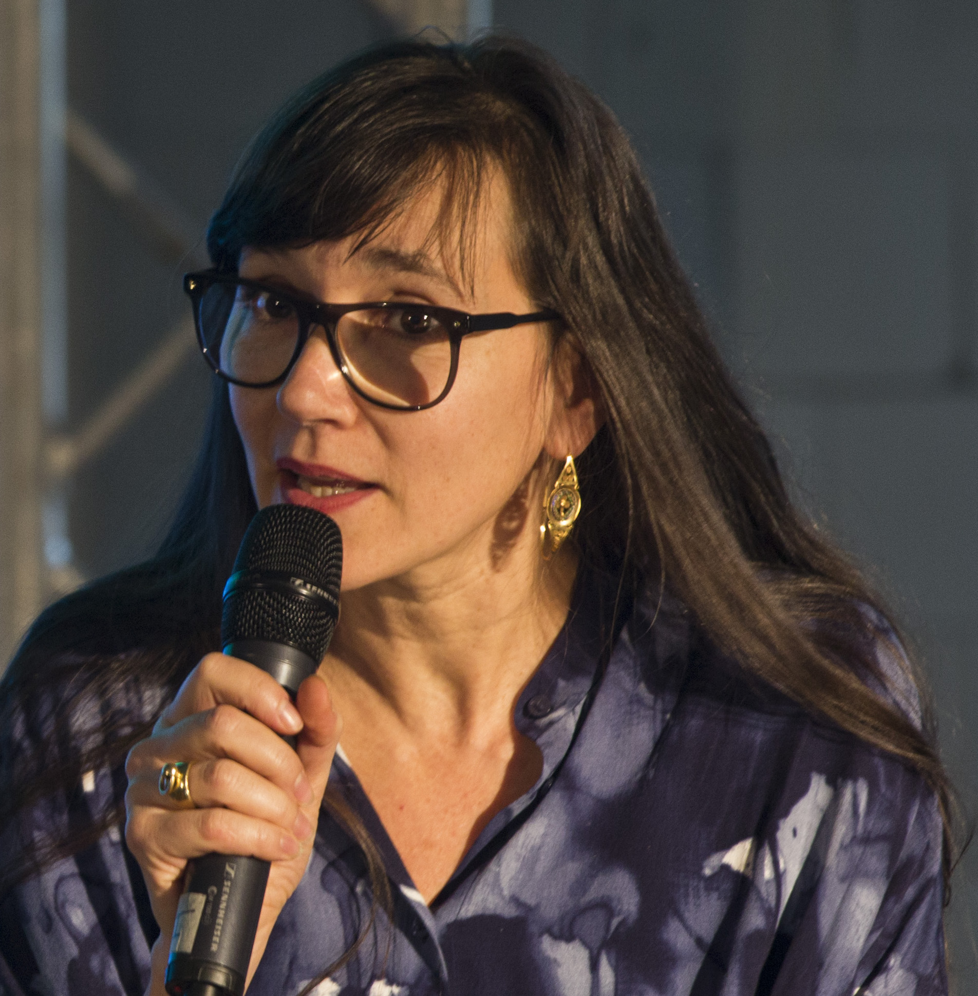 Buenos Aires, 20 de noviembre de 2015 - En el marco del encuentro Sur Global, hacia la Bienal de UNASUR en el Museo Hotel de los Inmigrantes, se presentó la mesa "Materiales para el arte contemporáneo" Diálogo entre Tatiana Trouvé (artista francesa) y Aníbal Jozami Fotos: Mauro Rico / Ministerio de Cultura de la Nación